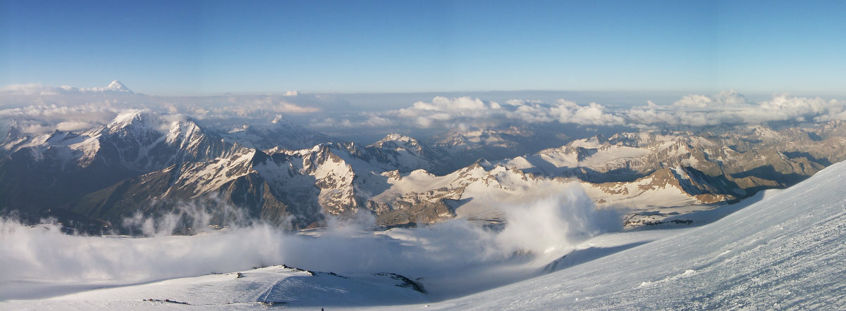 View to the South from Mount Elbrus.